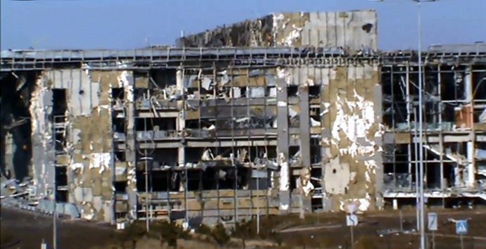 Ruins of Donetsk Sergey Prokofiev International Airport.